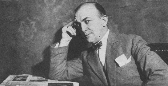 Jerzy Petersburski (1895–1979) was a Polish pianist and composer of popular music.